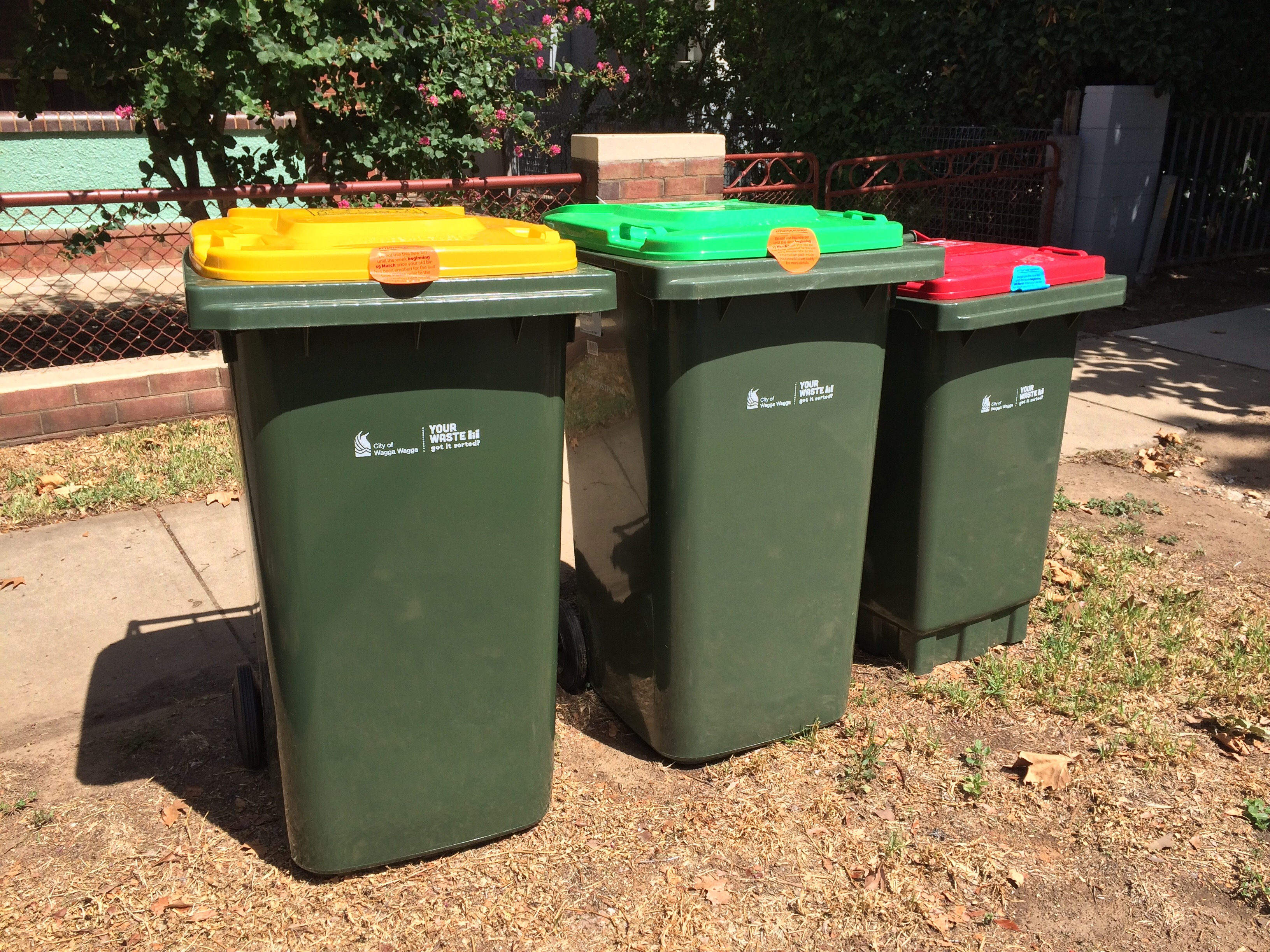 City of Wagga Wagga, 240L Food Organics and Garden (FOGO), 240L Recycling and 140L general waste bins